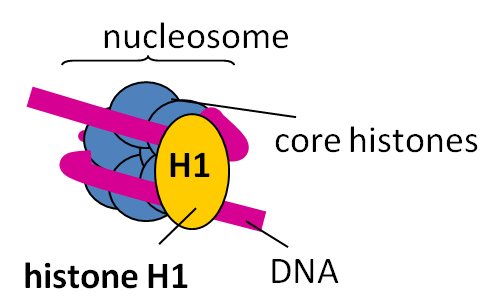 Diagram showing the linker histone H1 binding to the nucleosomal core particle